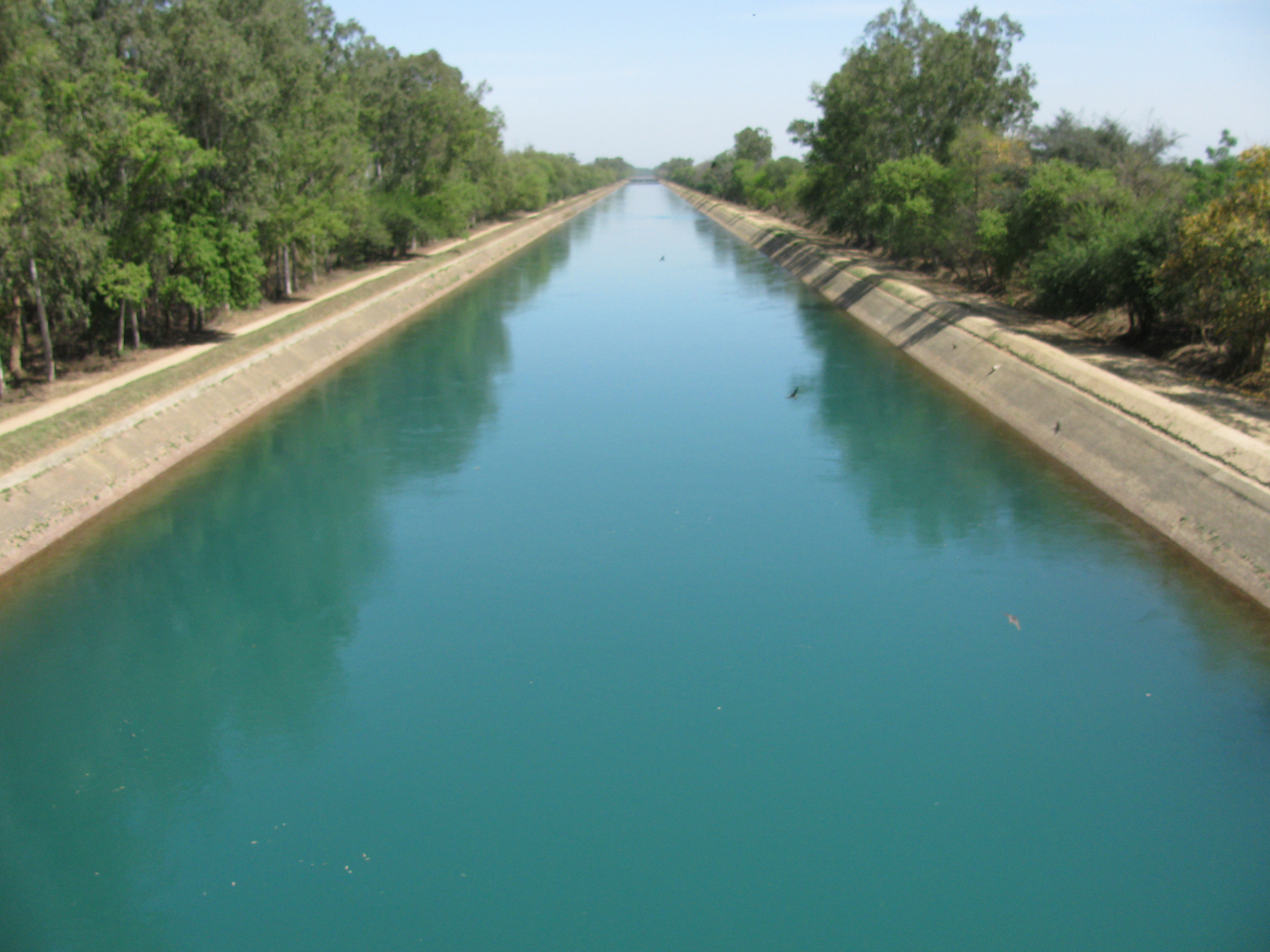 Bhakra Main Channel, Punjab